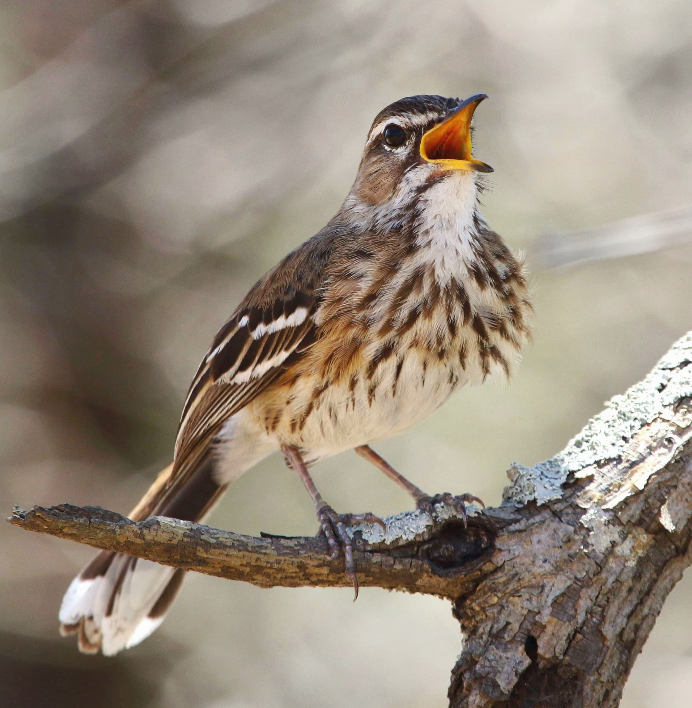 White-browed scrub robin Cercotrichas leucophrys singing in the shade at Ngwenya Lodge, Mpumalanga. It is near the contact zone with subsp. simulator, but flanks fulvous.